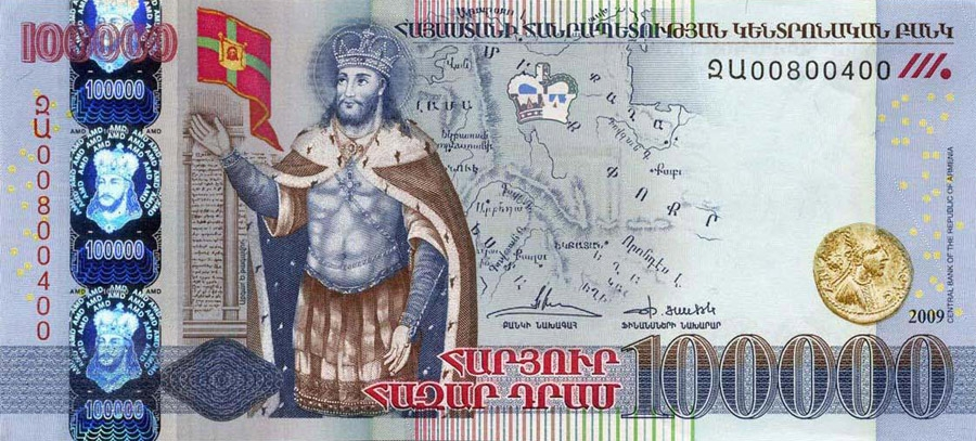 100000 dram 2009